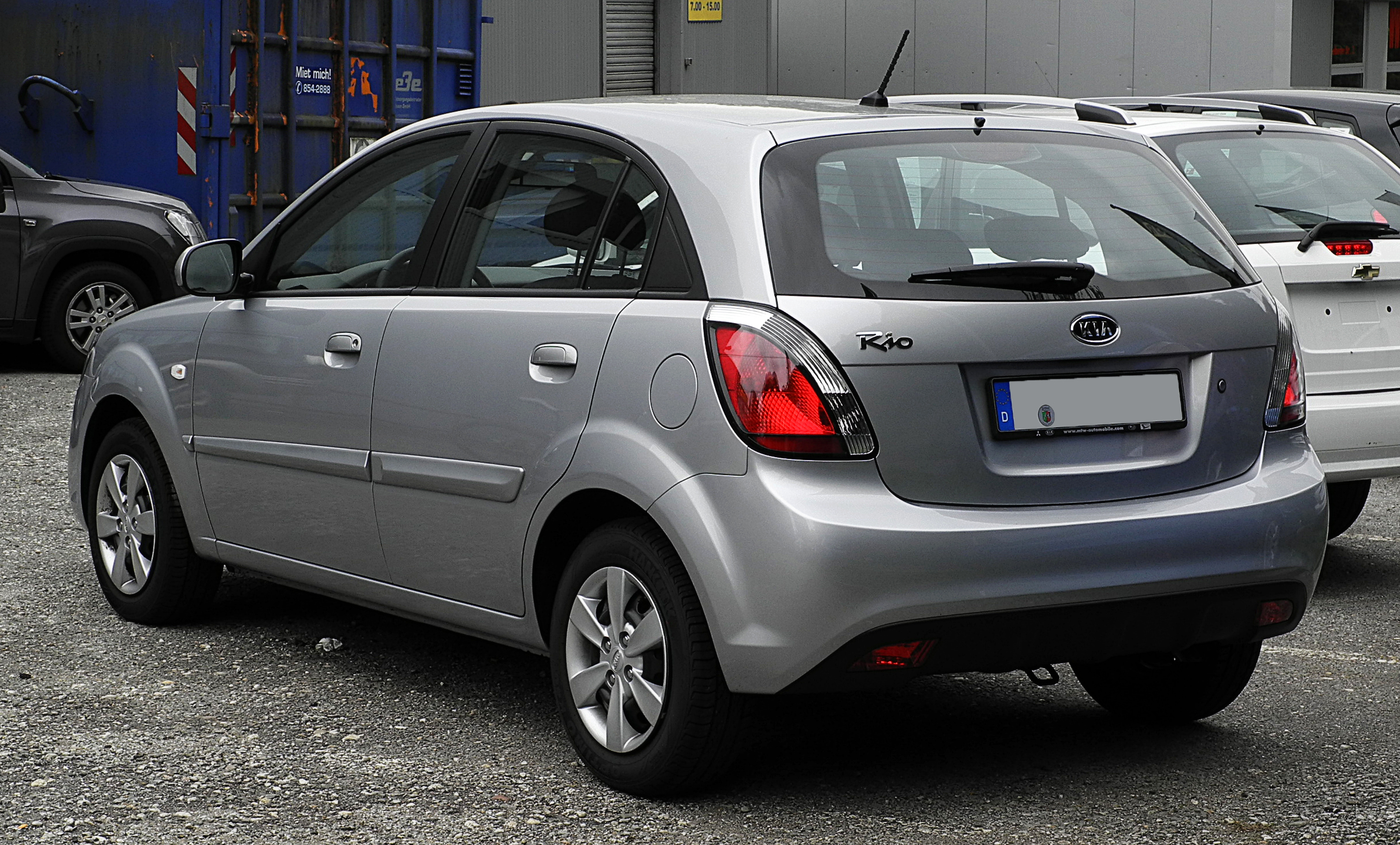 Kia Rio (DE, Facelift)